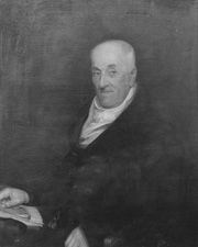 William Hindman, congressman and senator from Maryland.